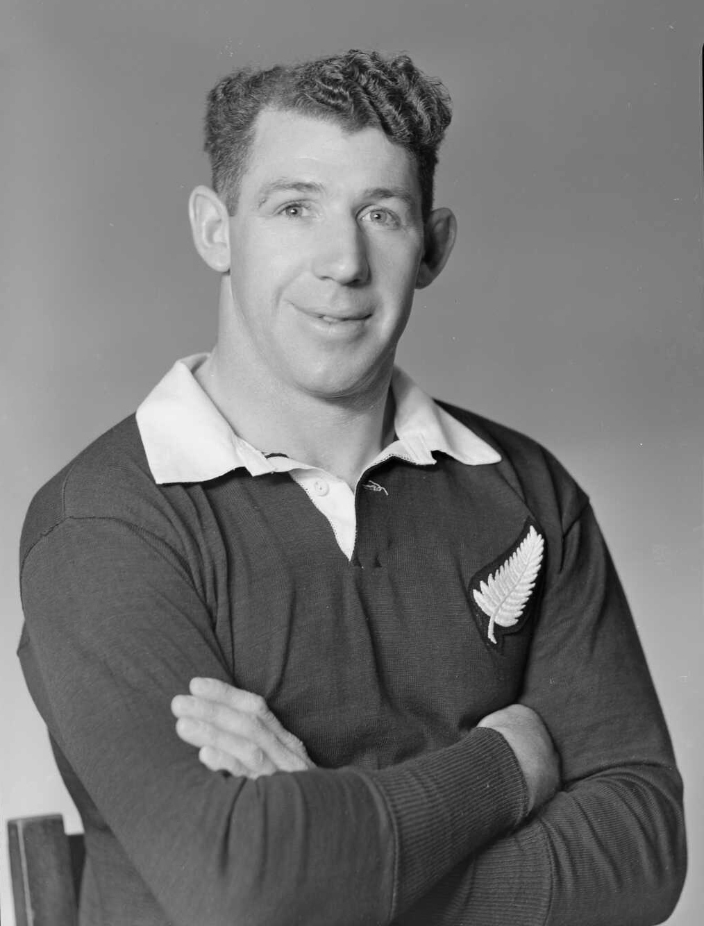 Photograph of rugby All Black trialist Hector William Wilson, known as Hec Wilson, taken by Crown Studio Ltd of Wellington.